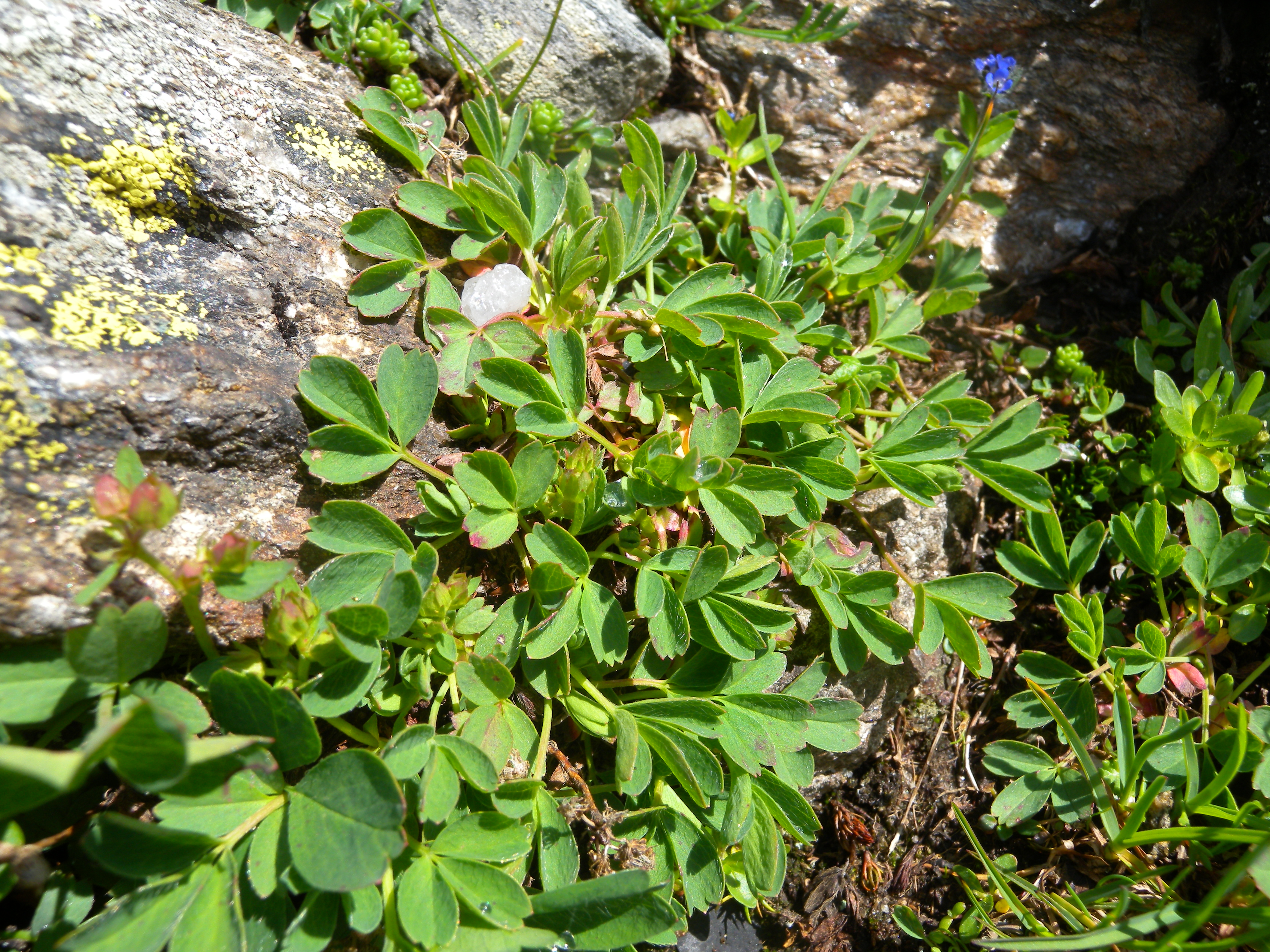 Sibbaldia procumbens (Rosaceae); Nufenenpass, Canton of Valais, Switzerland